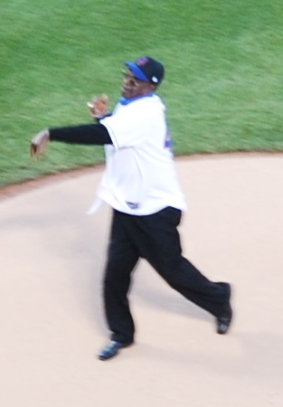 Al Jackson throws out the ceremonial first pitch on Jackie Robinson Night at Citi Field in April 2010. Mets pitcher Jon Niese looks on.